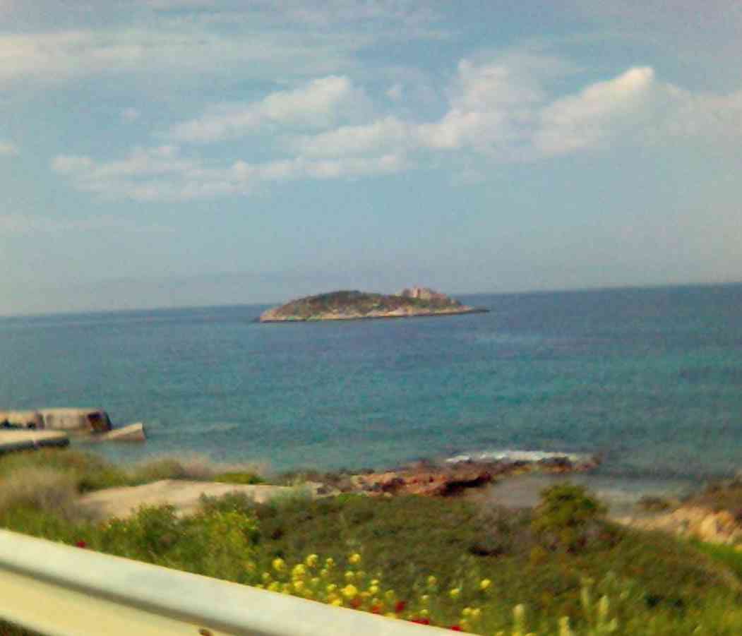 Islet (or most probably "rock") in Saronic Golf, Greece.